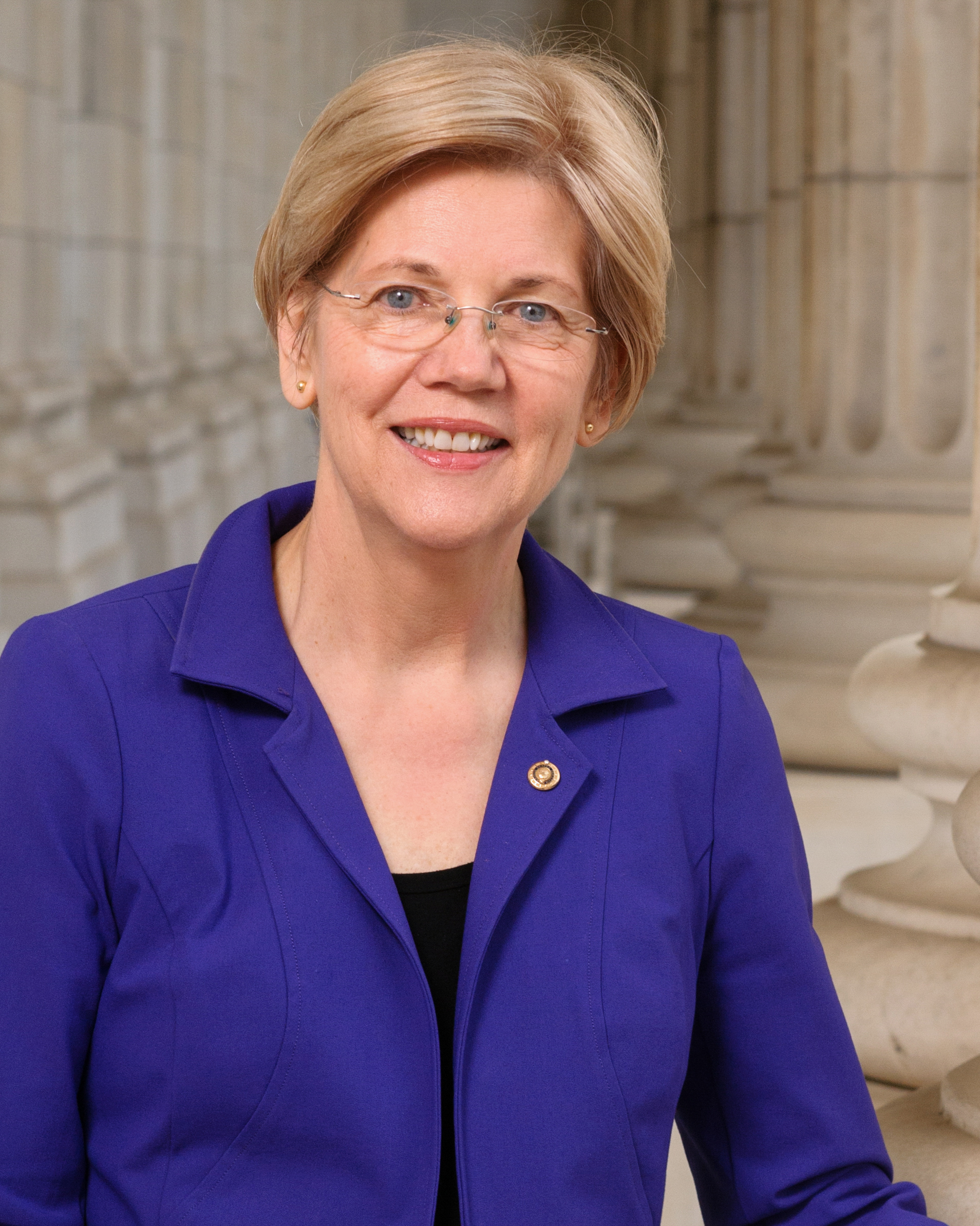 Official portrait of U.S. Senator Elizabeth Warren (D-MA)